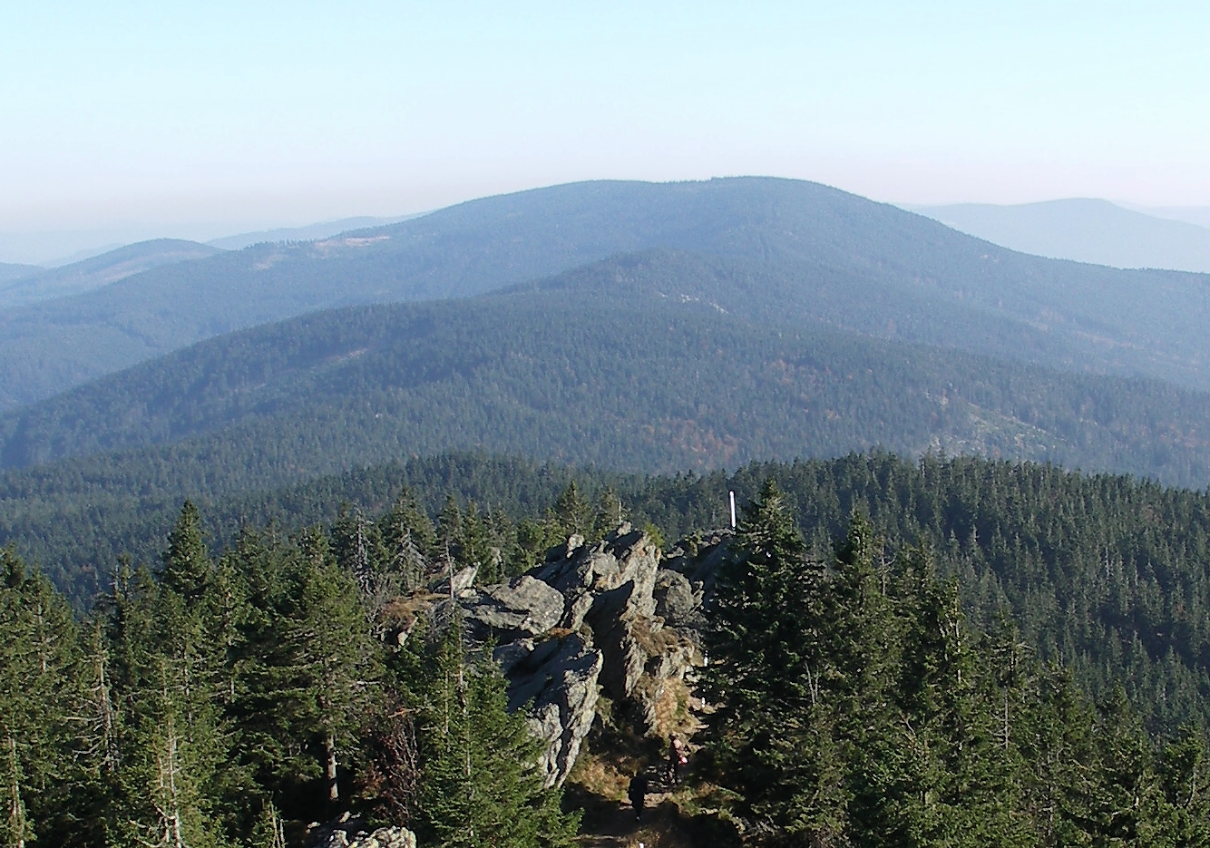 Svaroh (1333 m) and Jezerní hora (1343 m) from Ostrý